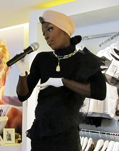 The American-Dutch drag queen Nickie Nicole performing at the opening of a shop in Amsterdam; March 2012.